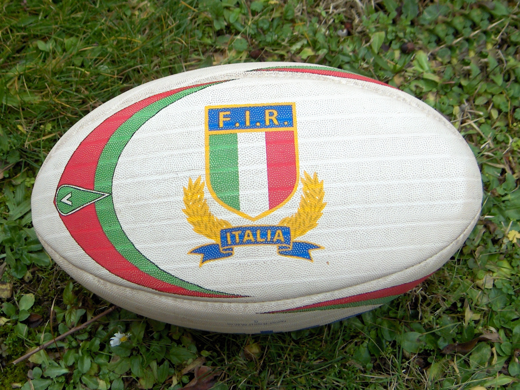 Rugby union ball manufactured by Mitre for the Italian Rugby Federation.